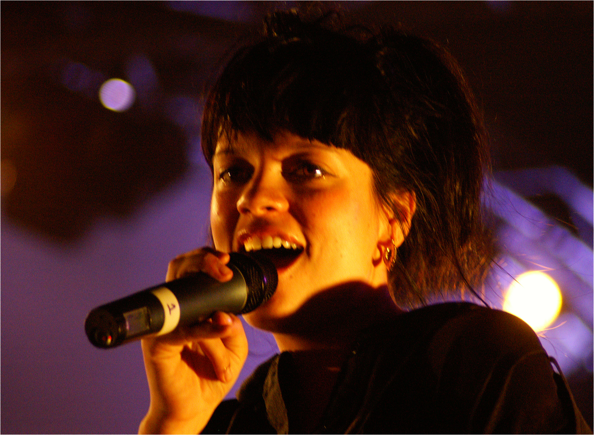 Lily Allen appearing at the Solidays festival in Paris, France